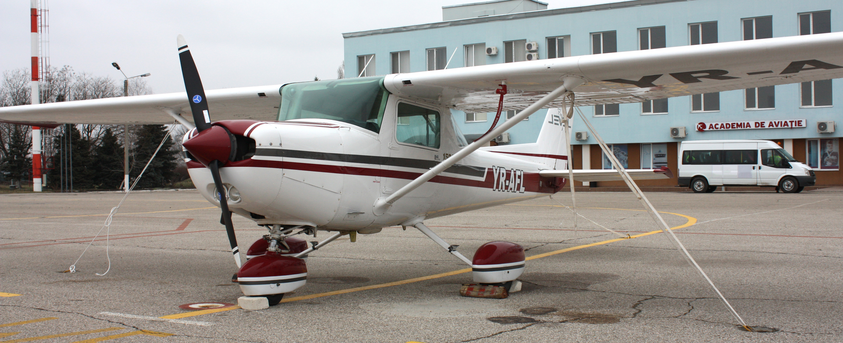 Cessna 152 with Fly Level livery at chisinau airport